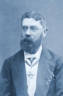 Lorents Albrecht Theodor Groth